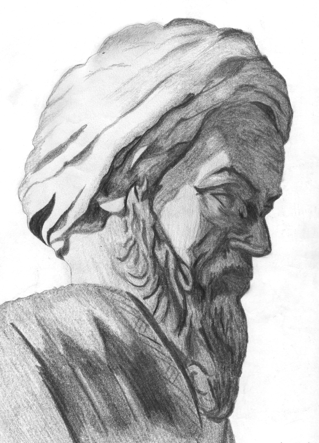 Drawing of Muhammad Zakariya Razi.